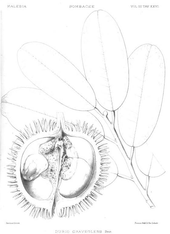 sketch of fruit and leaves of Durio graveolens from Odoardo Beccari's 1890 book "Malesia"